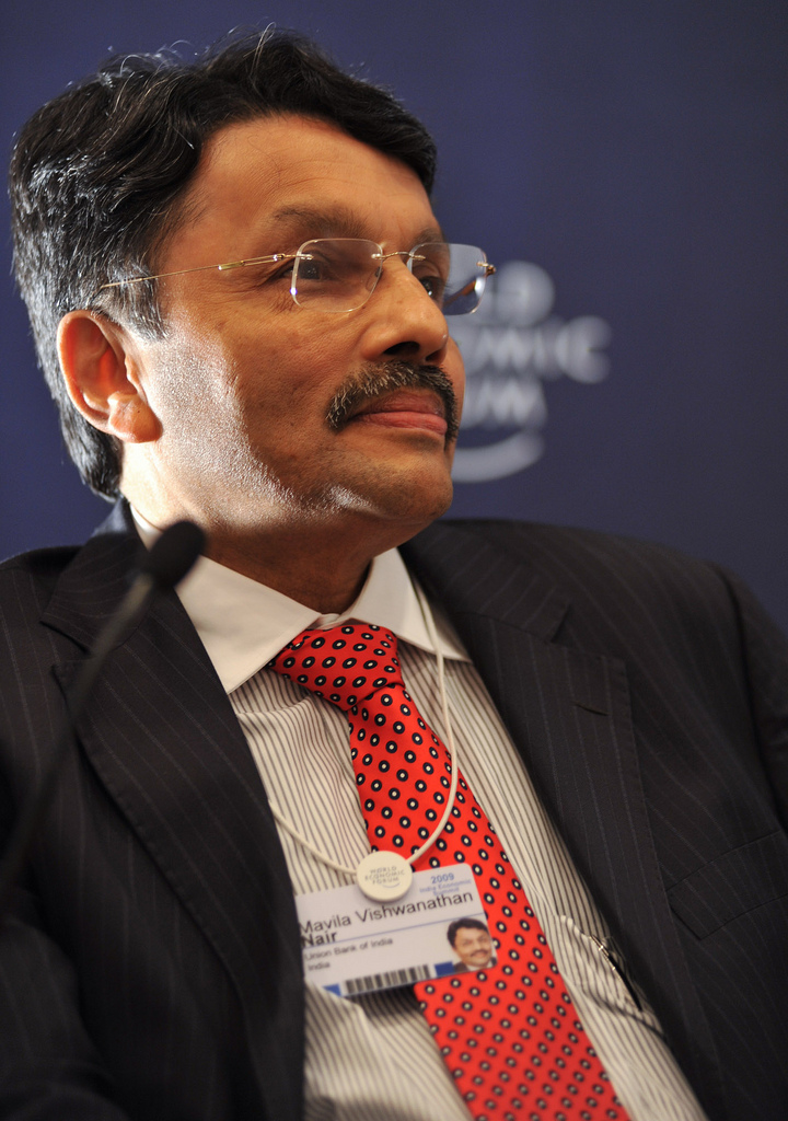 NEW DELHI/INDIA, 10NOV09 - Mavila Vishwanathan Nair in the Rurban India Session. Participants captured during the World Economic Forum's India Economic Summit 2009 held in New Delhi, 8-10 November 2009.